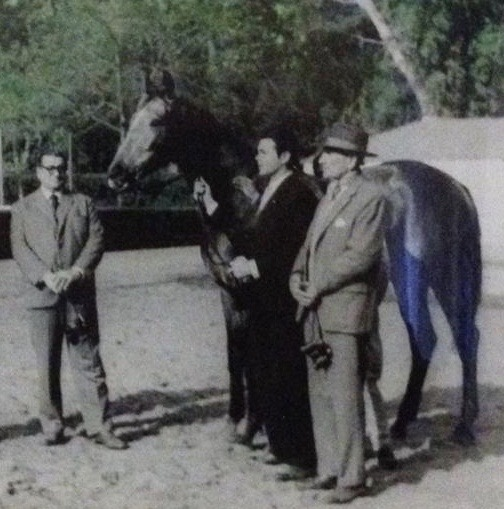 Monaca after winning on 25 June 1961 the Alfonso de la Fuente y Chai Prize, Independence Hippodrome, Rosario Argentina. Standing from the left: Mr. Pedro Claverie, Monaca, Mr. Oscar Banegas and Mr. Natalio Cirilo Banegas.